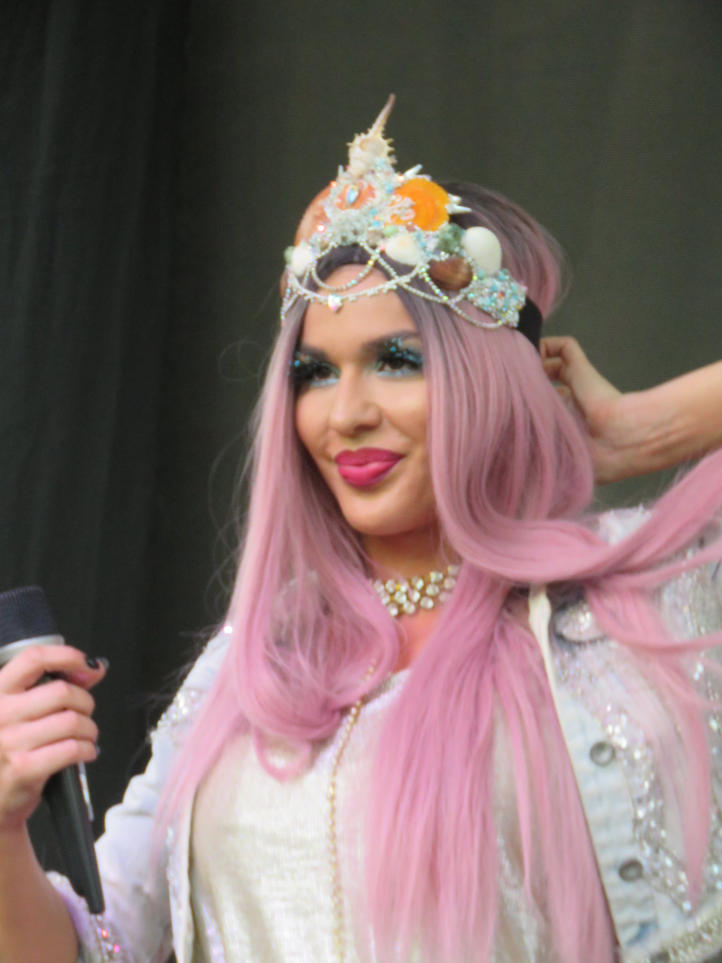 Marina Visković at Belgrade Pride 2018